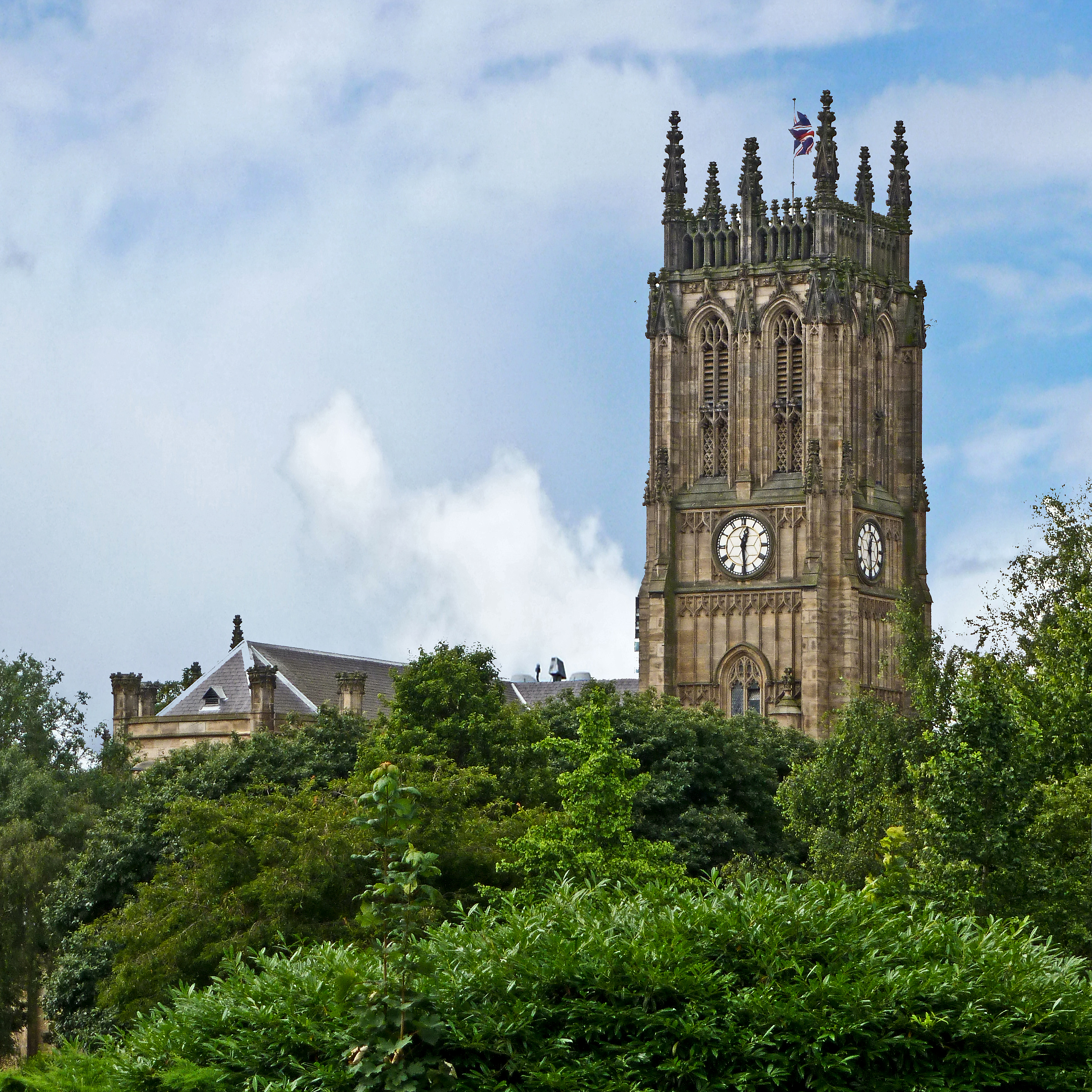 Leeds Parish Church